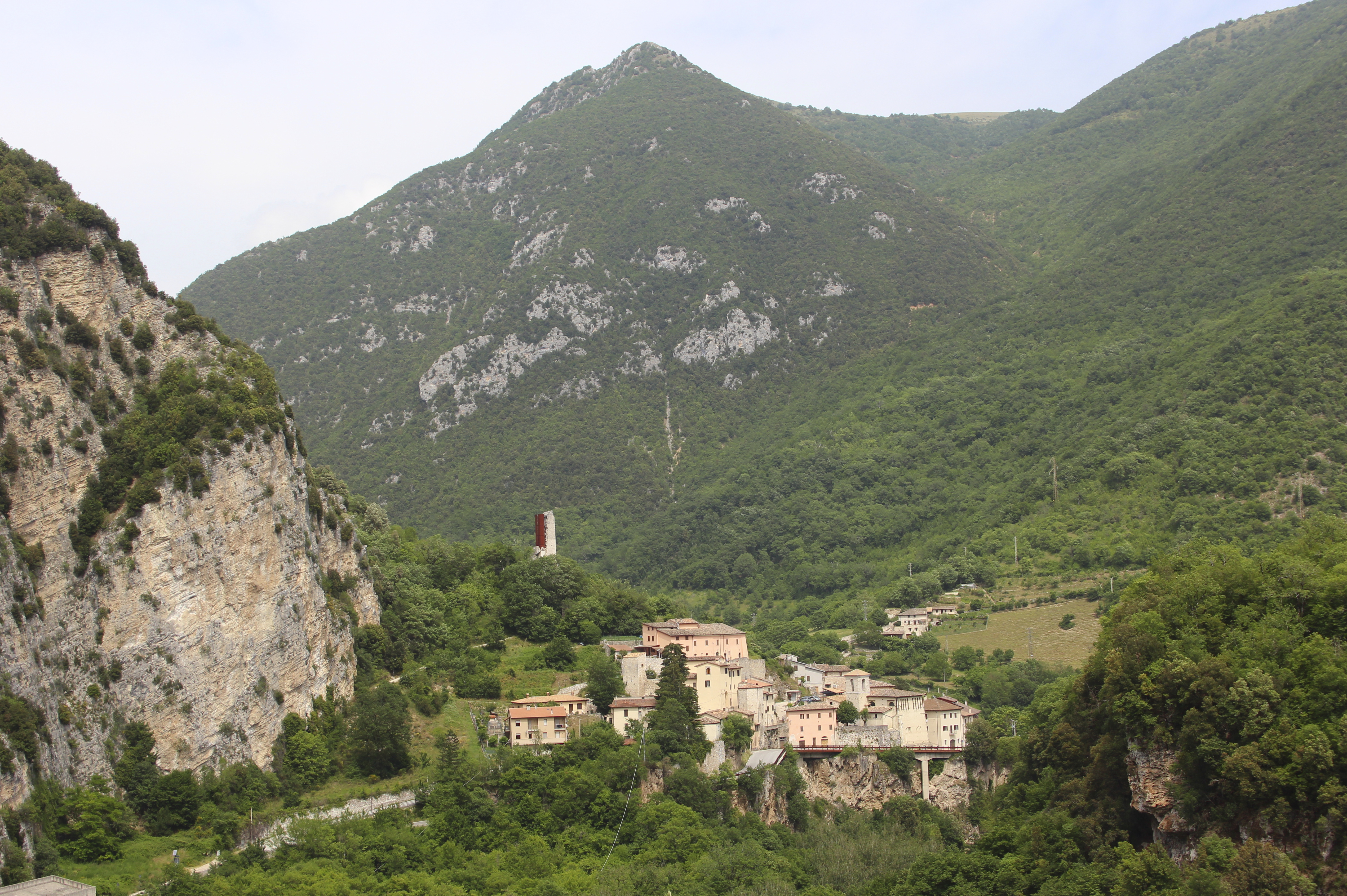 Panorama of Triponzo, hamlet of Cerreto di Spoleto, Province of Perugia, Umbria, Italy